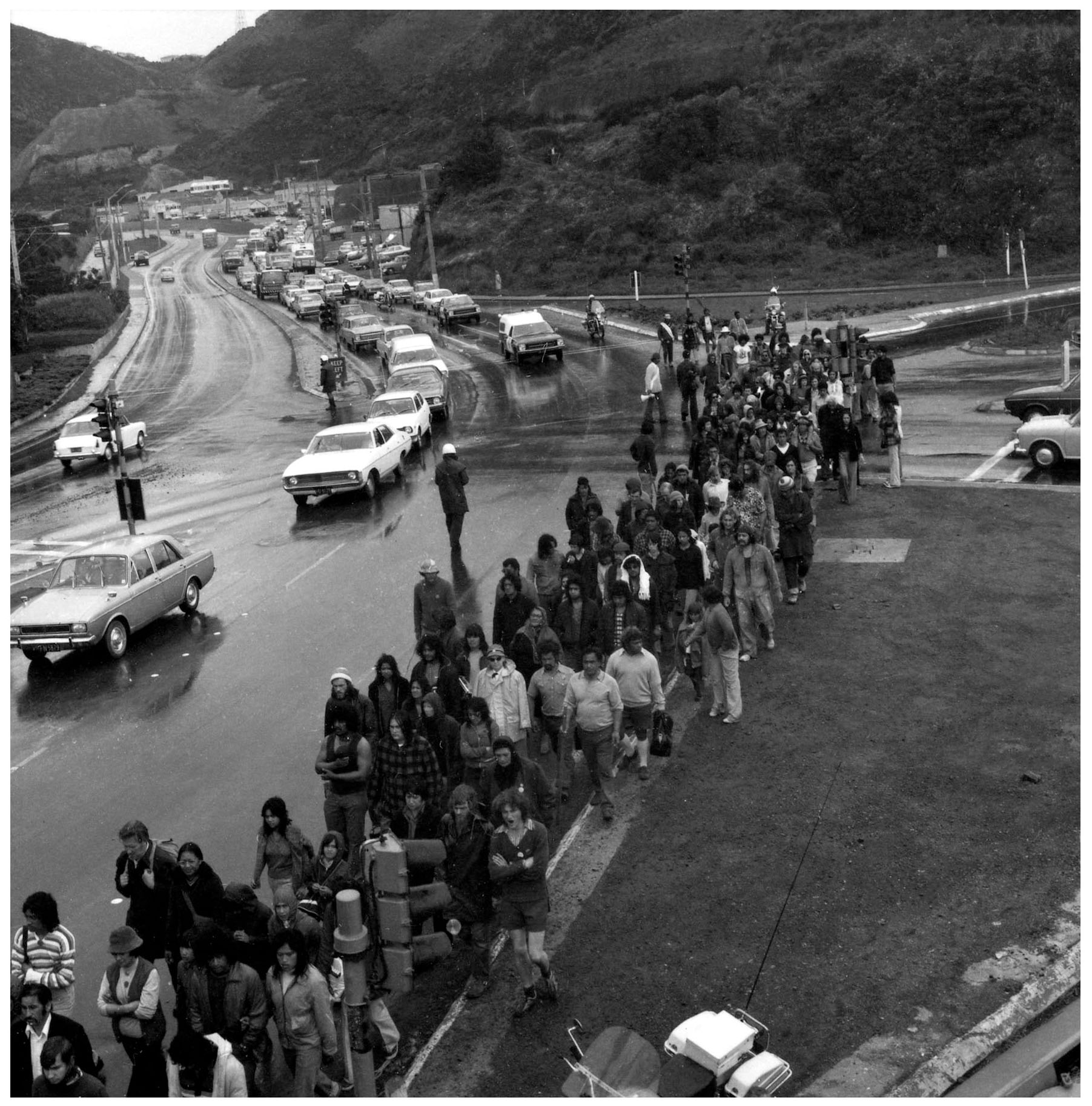 On 13 October 1975, a hikoi of 5,000 marchers arrived at Parliament to protest the ongoing alienation of Māori land. Organised by Māori land rights group Te Rōpū O Te Matakite and led by Dame Whina Cooper, the hikoi had departed from Te Hapua, Northland, on 14 September, and arrived in Wellington after marching 1,100 kms throughout the North Island. Te Rōpū O Te Matakite regarded the land march as ‘a climax to over a hundred and fifty years of frustration and anger over the continuing alienation of their lands’. Upon their arrival at Parliament they presented a petition signed by 60,000 people from around New Zealand to Prime Minister Bill Rowling. The petition called for an end to monocultural land laws which excluded Māori cultural values, and asked for the ability to establish legitimate communal ownership of land within iwi. The hikoi represented a watershed moment in the burgeoning Māori cultural renaissance of the 1970s. It brought unprecedented levels of public attention to the issue of alienation of Māori land, and established a method of protest that was repeatedly reused in the following decades. To mark the 40th anniversary of the Land March, Archives New Zealand has created an album on Flickr to highlight key documents within our holdings that relate to the event. These include the petition with 60,000 signatures presented by Dame Whina Cooper to Prime Minister Bill Rowling, images of the Land March approaching Wellington City and correspondence related to the planning that went on behind the scenes to support the march taking place. This image is from the Public Works Department showing the tail end of the Land March group walking down Ngauranga Gorge at the point where State Highway 1 merges with State Highway 2. Another angle of the march can be seen here: Archives Reference: ABKK 24414 W4358 539 For updates on our On This Day series and news from Archives New Zealand, follow us on Twitter: Material from Archives New Zealand